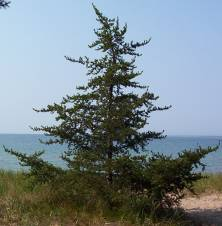 the tree Pinus banksiana, photo taken at Pancake Bay Provincial Park on Lake Superior